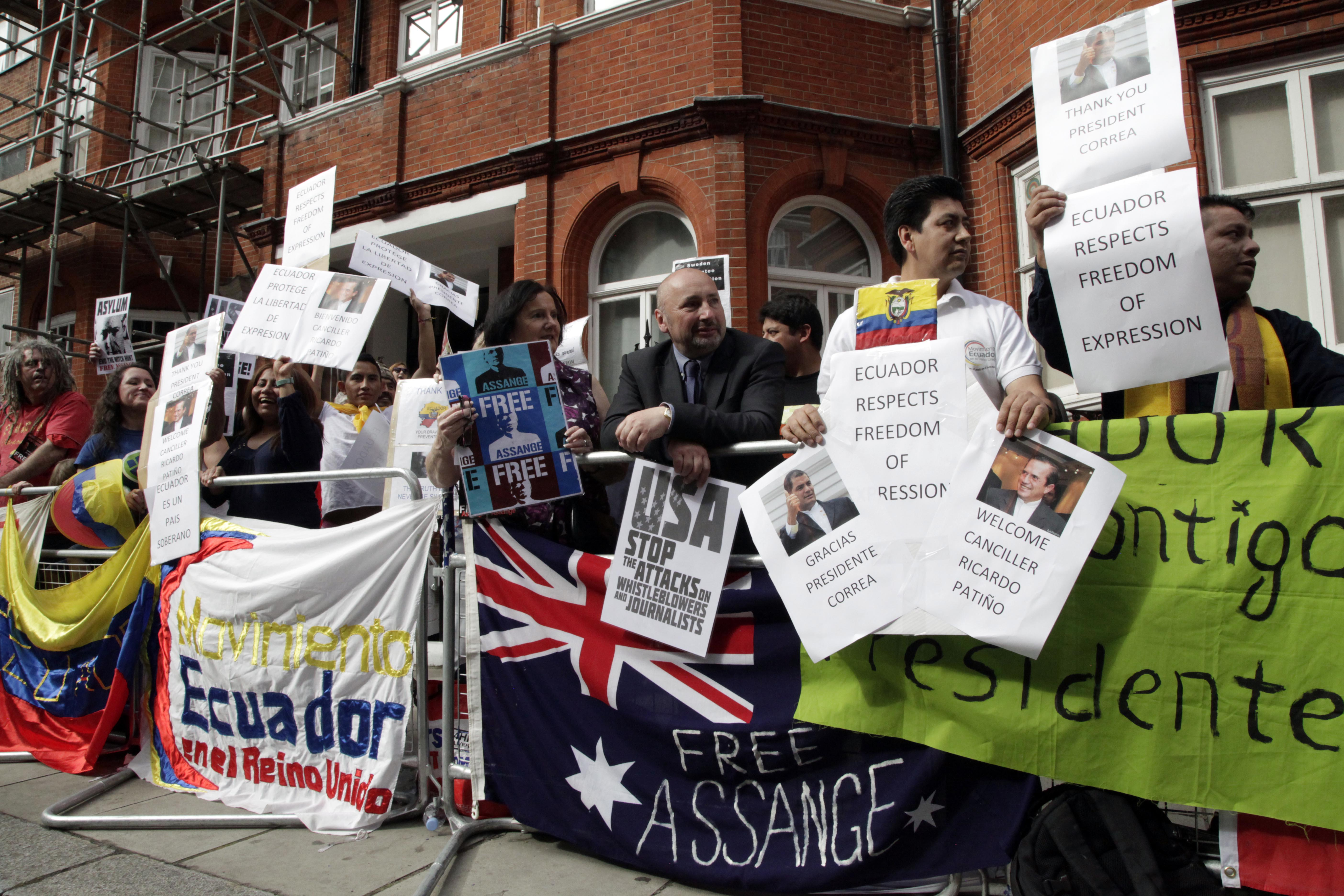 London, United Kingdom.